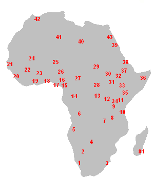 Distribution of standard cross-cultural sample cultures in Africa